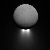 Enceladus' intriguing south-polar jets are viewed from afar, backlit by sunlight while the moon itself glows softly in reflected Saturn-shine. Observations of the jets taken from various viewing geometries provide different insights into these remarkable features. Cassini has gathered a wealth of information in the hopes of unraveling the mysteries of the subsurface ocean that lurks beneath the moon's icy crust. This view looks toward the Saturn-facing hemisphere of Enceladus (313 miles or 504 kilometers across). North is up. The image was taken in visible light with the Cassini spacecraft narrow-angle camera on April 13, 2017. The view was acquired at a distance of approximately 502,000 miles (808,000 kilometers) from Enceladus and at a sun-Enceladus-spacecraft, or phase, angle of 176 degrees. Image scale is 3 miles (5 kilometers) per pixel. The Cassini mission is a cooperative project of NASA, ESA (the European Space Agency) and the Italian Space Agency. The Jet Propulsion Laboratory, a division of the California Institute of Technology in Pasadena, manages the mission for NASA's Science Mission Directorate, Washington. The Cassini orbiter and its two onboard cameras were designed, developed and assembled at JPL. The imaging operations center is based at the Space Science Institute in Boulder, Colorado. For more information about the Cassini-Huygens mission visit and The Cassini imaging team homepage is at